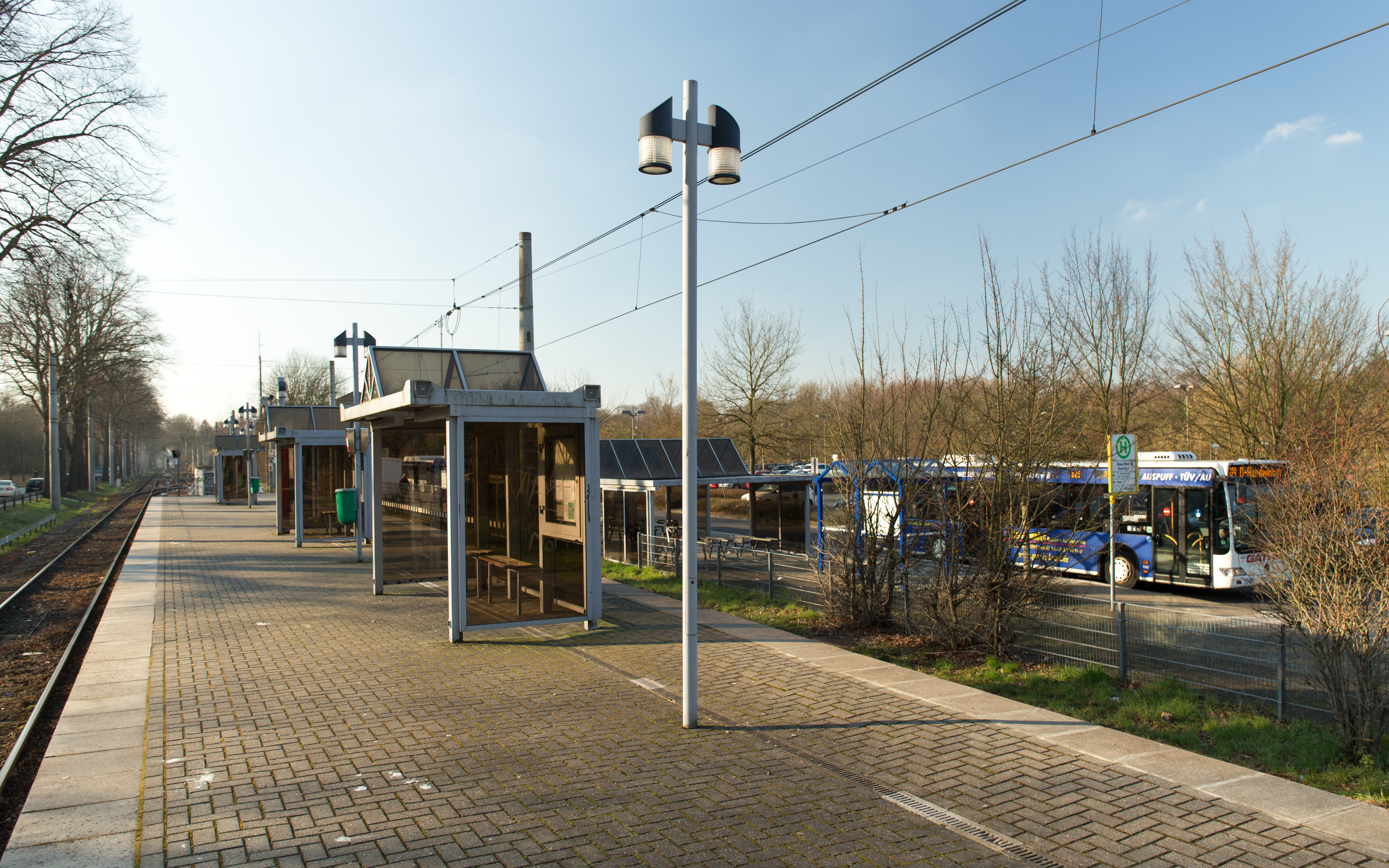 Stadtbahnhaltestelle Haus Meer Blickrichtung Bushaltestelle P&R-Parkplatz